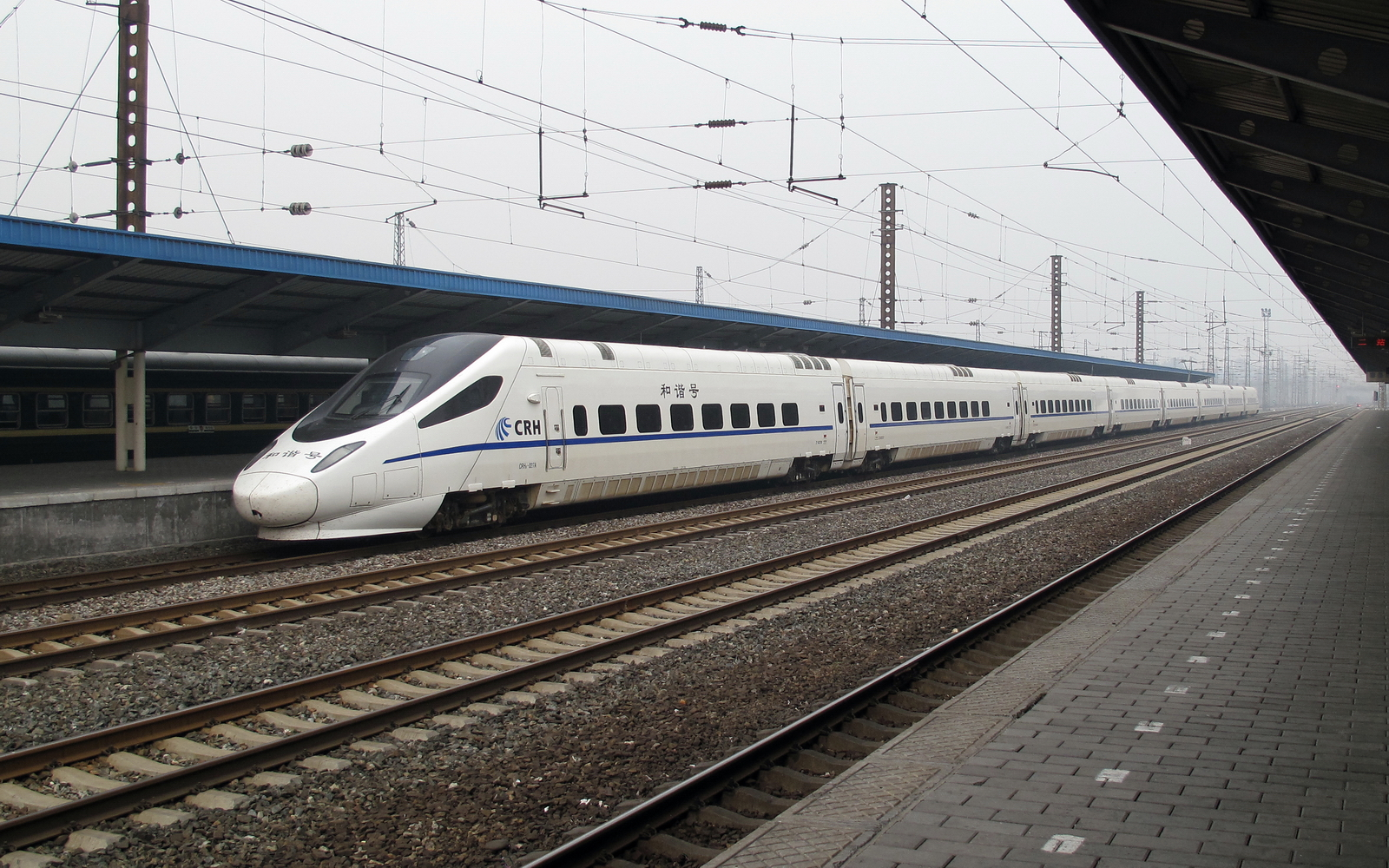 China Railways CRH5 at Qinhuangdao Railway Station